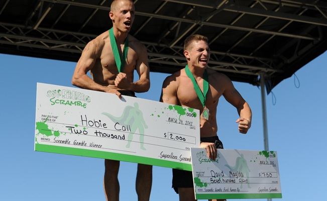 Hobie Call wins the Scramble Gamble at the SUPERHERO SCRAMBLE Miami, FL - March 12, 2012